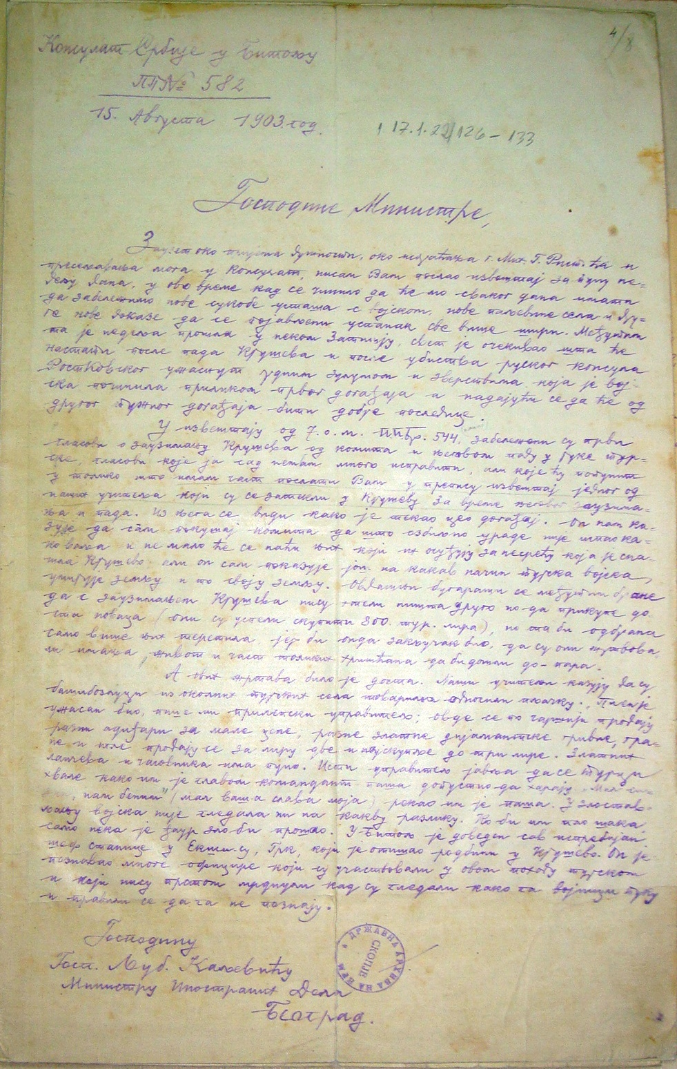 Report from Serbian consul Ljuba Mihailovic to Koljevic, minister of foreign affairs of Serbia, about the destructive march of the Turkish hordes against the Christian population after the fall of revolutionary Krusevo, burning of villages even in Lerin, murders, robberies and other mischief. (Bitola, August 15, 1903) This media file is produced by Wikipedian in Residence in Category:Wikipedian in Residence at DARM in 2016.